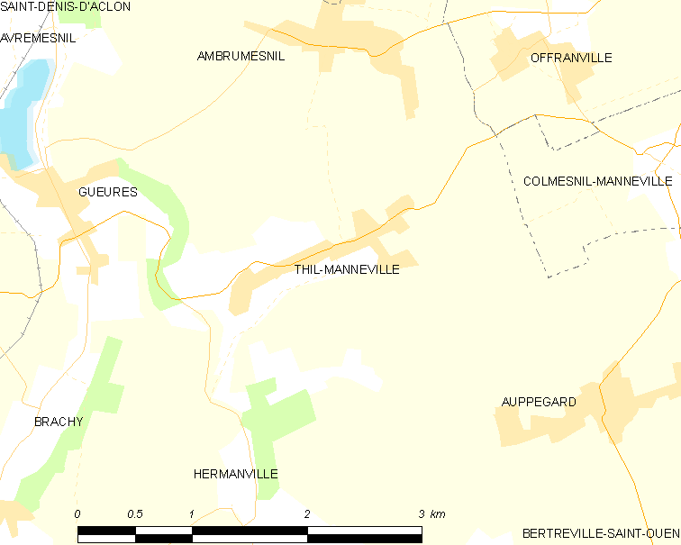 Map of French municipality Thil-Manneville